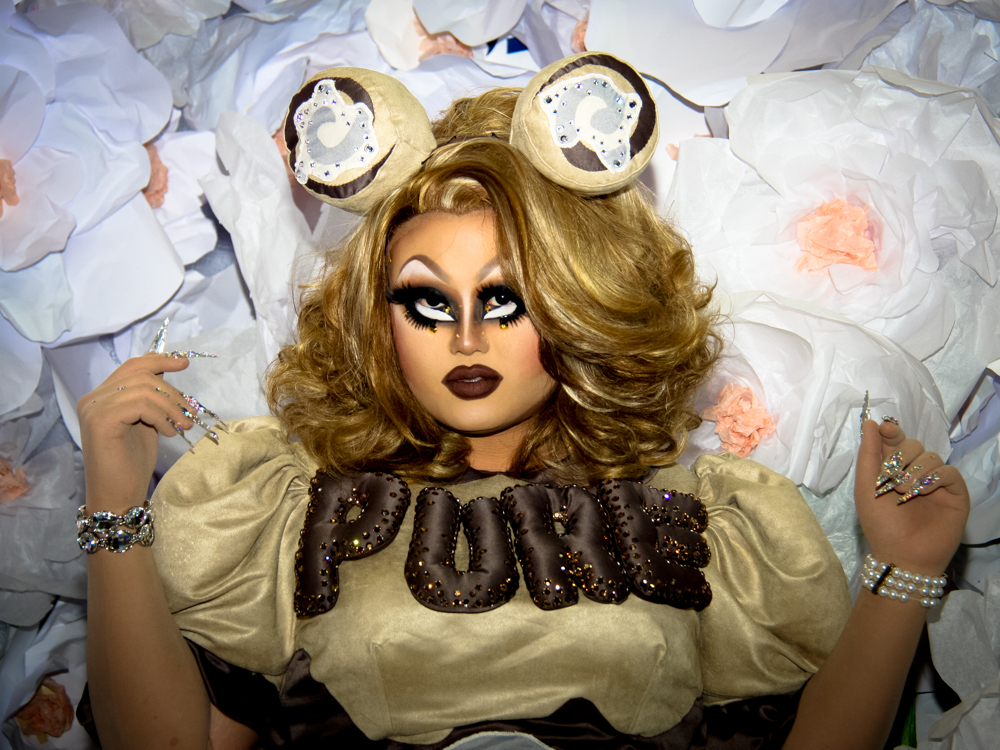 Kim Chi at RuPauls Dragcon 2017